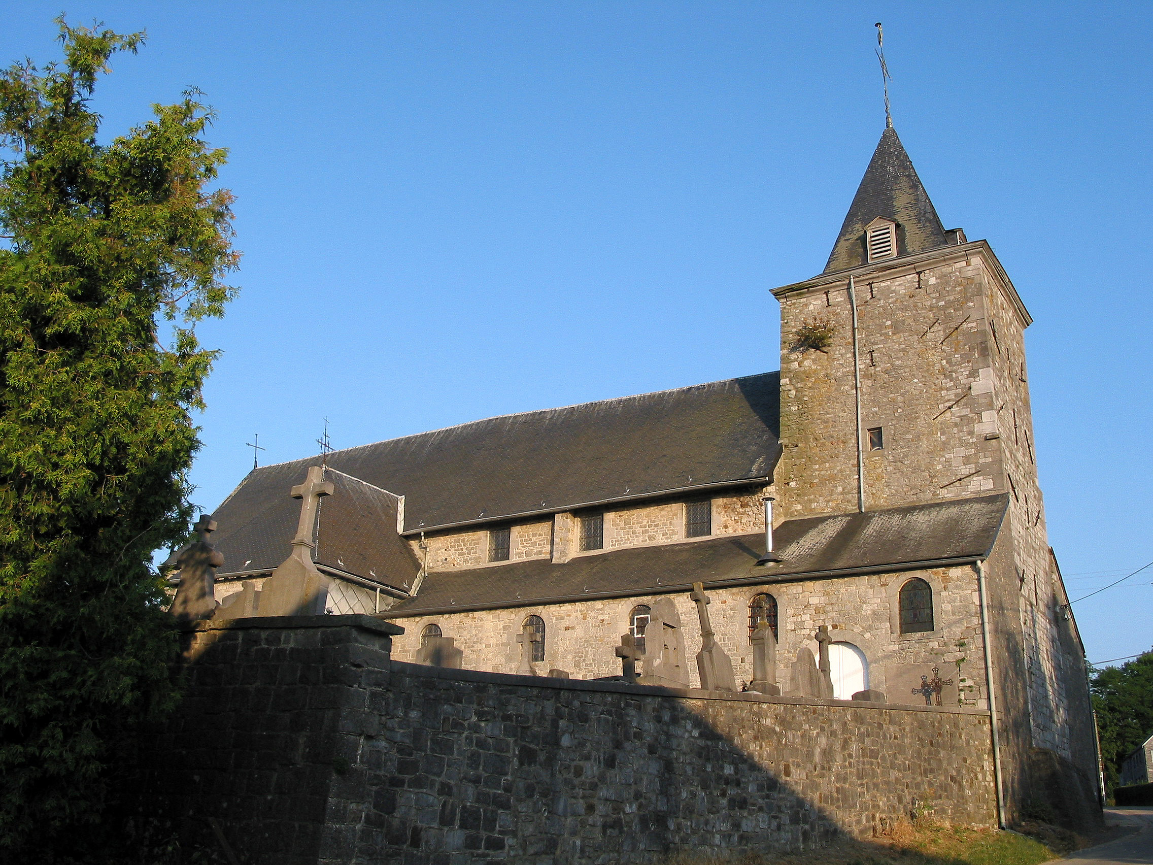 Clavier (Belgium), the St. Bartholomews’ church.